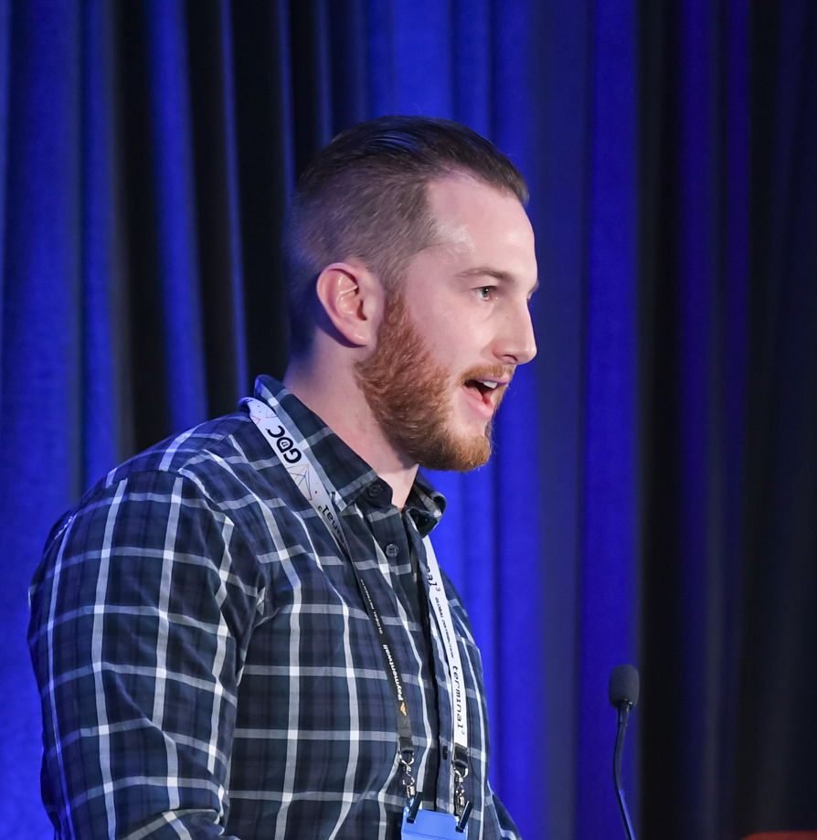 The Rendering of 'Below', Colin Weick (Capybara Games) at GDC 2017